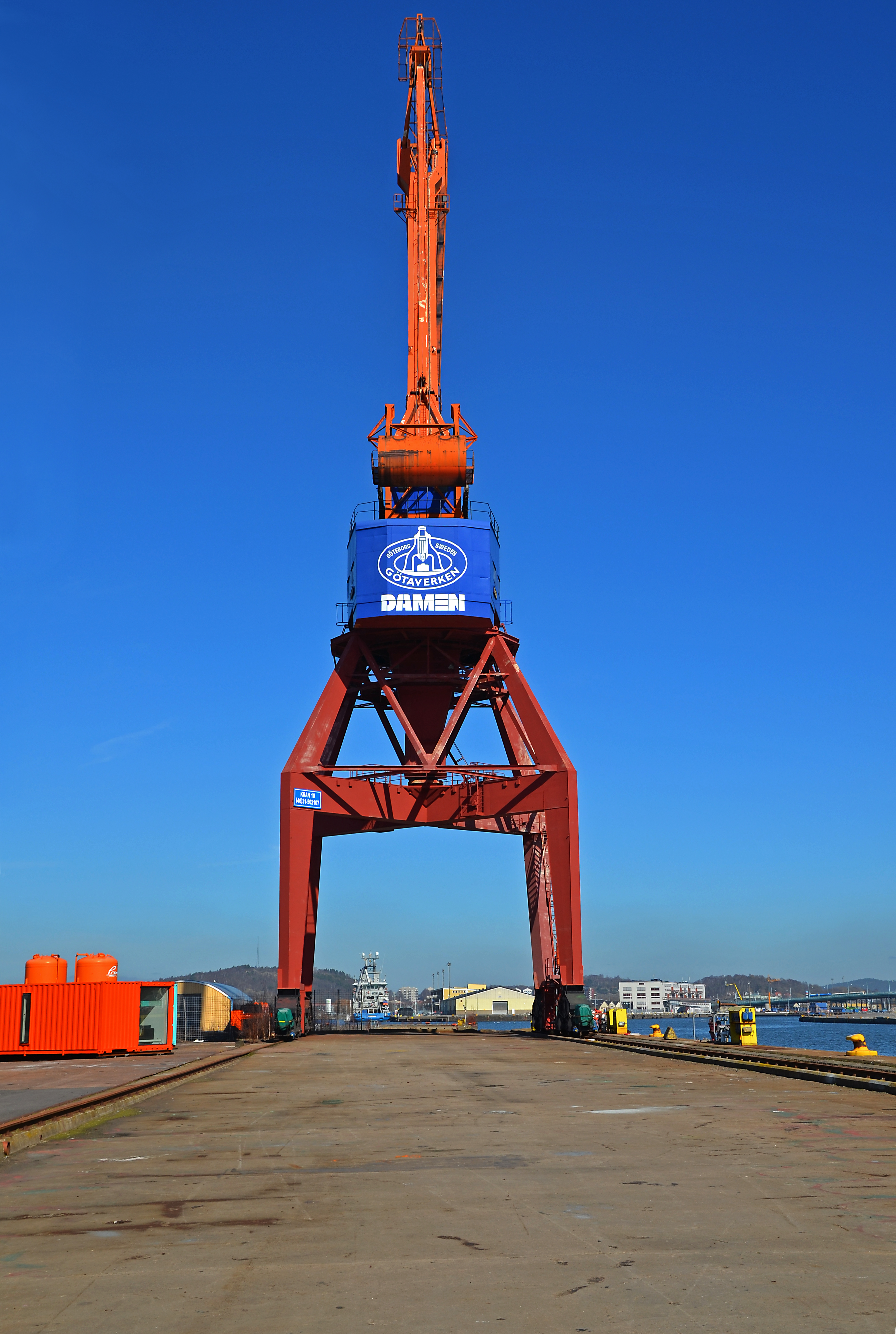 Götaverken Shipyard